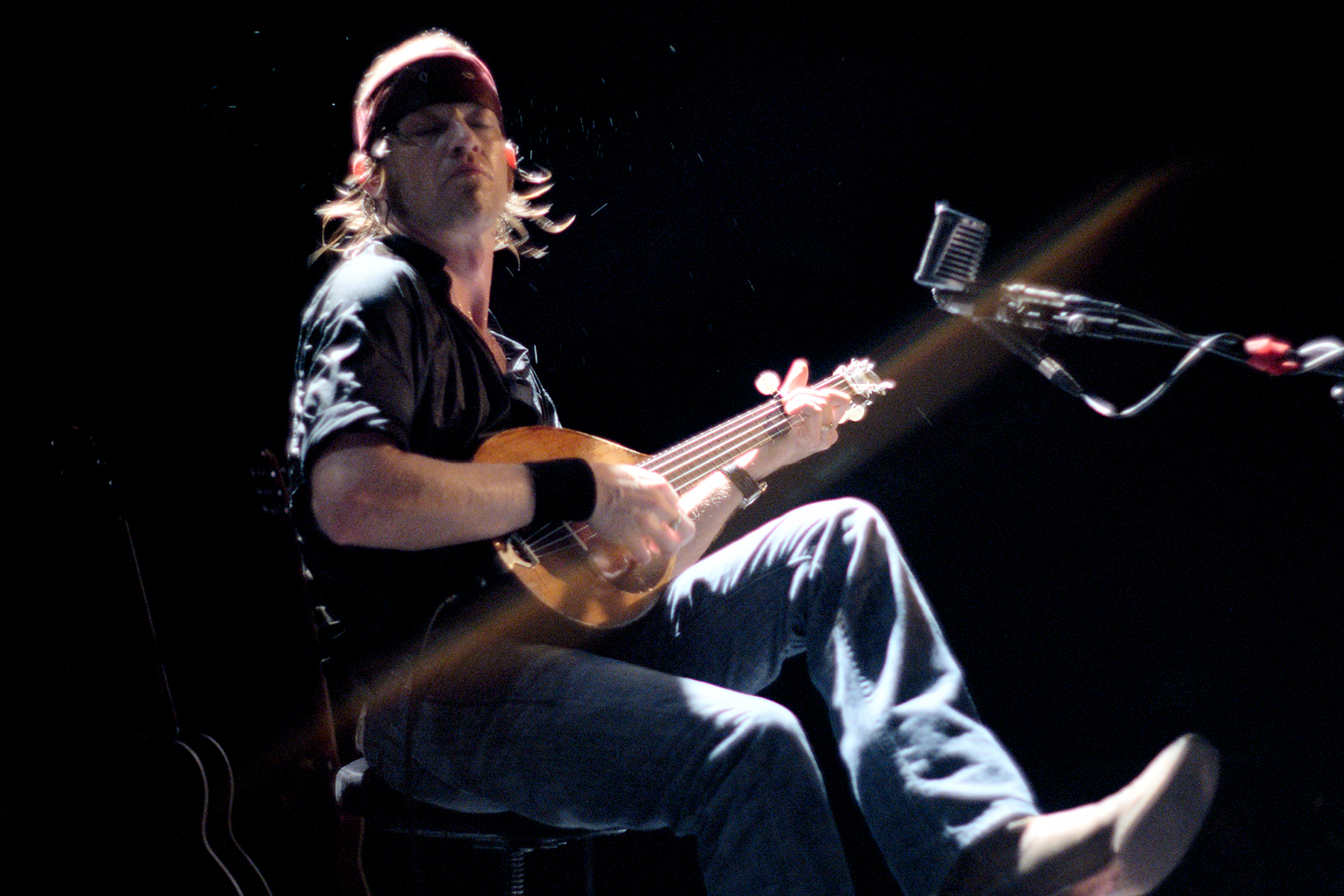 View in my concert gallery.